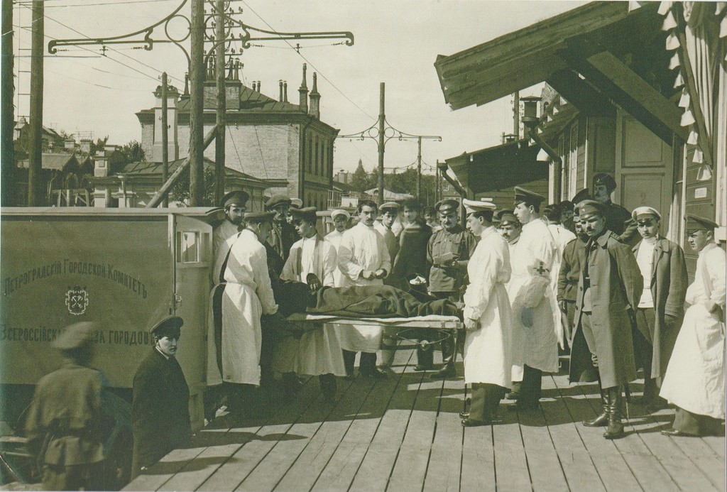 Transportation of wounded in Petrograd, 1914-1916. A special track for trams was constructed to transport the wounded from the railway station to the military hospital by trams